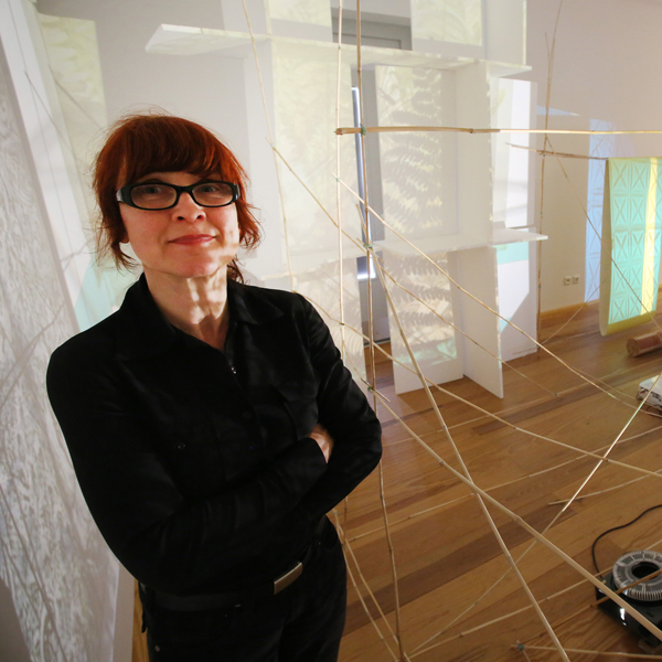 Christine Schulz (2014)